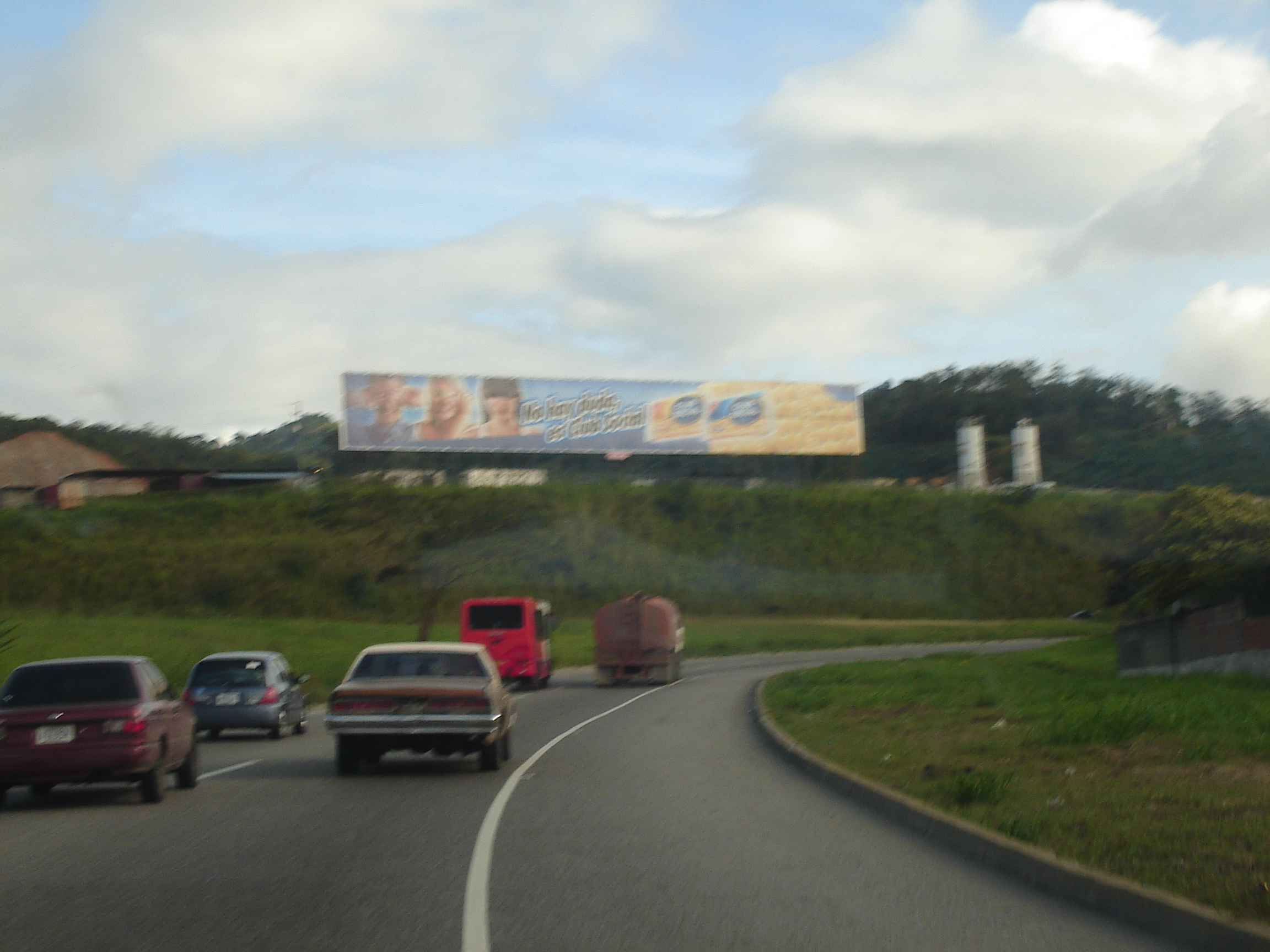 El Quemaito exit, start of section Guatire - Chuspita, the Club Social billboard, the Gran Mariscal de Ayacucho highway